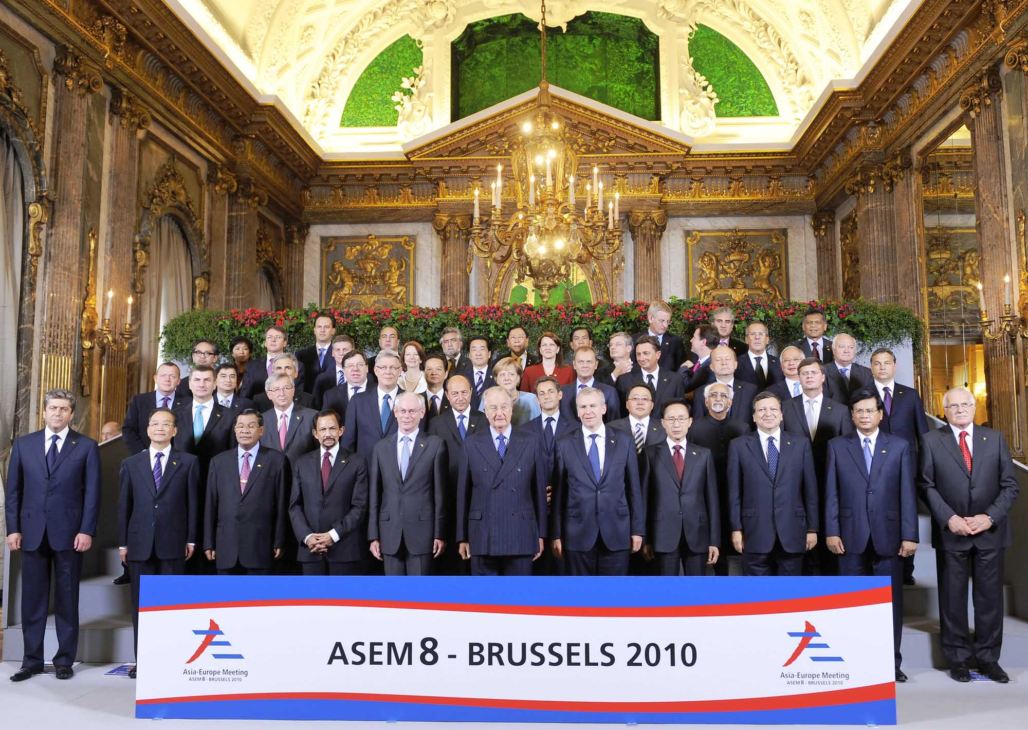 20101004 - BRUSSELS, BELGIUM : Family photo on the first day of the eighth Asia-Europe Meeting (ASEM 8), Monday 04 October 2010, at the Royal Palace in Brussels. President of the European Council Herman Van Rompuy (5thL), Belgium's King Albert II (6thL), outgoing Belgian Prime Minister Yves Leterme (5thR), European Commission chairman Jose Manuel Barroso (3thR). นายกรัฐมนตรีเข้าร่วมการประชุมผู้นำเอเซีย-ยุโรป ครั้งที่8 (ASEM8) ณ กรุงบรัสเซลส์ ประเทศเบลเยียม วันที่4 -5 ตุลาคม พ.ศ.2553 (ภาพจาก